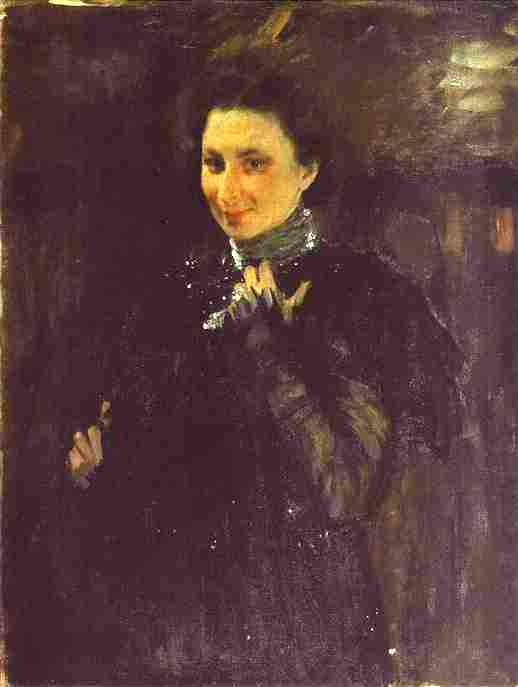 Portrait of Mara Oliv. 1895. Oil on canvas. The Russian Museum, St. Petersburg, Russia.